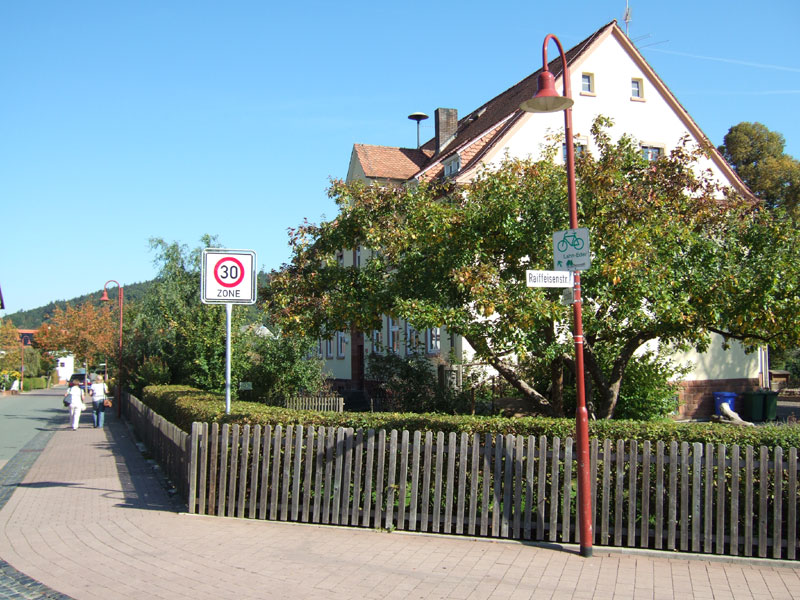 Lahn-Eder-cycle track near the primary school in Burgwald-Ernsthausen, Germany